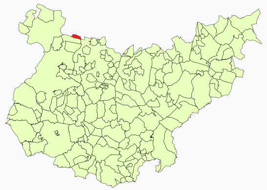 Puebla de Obando